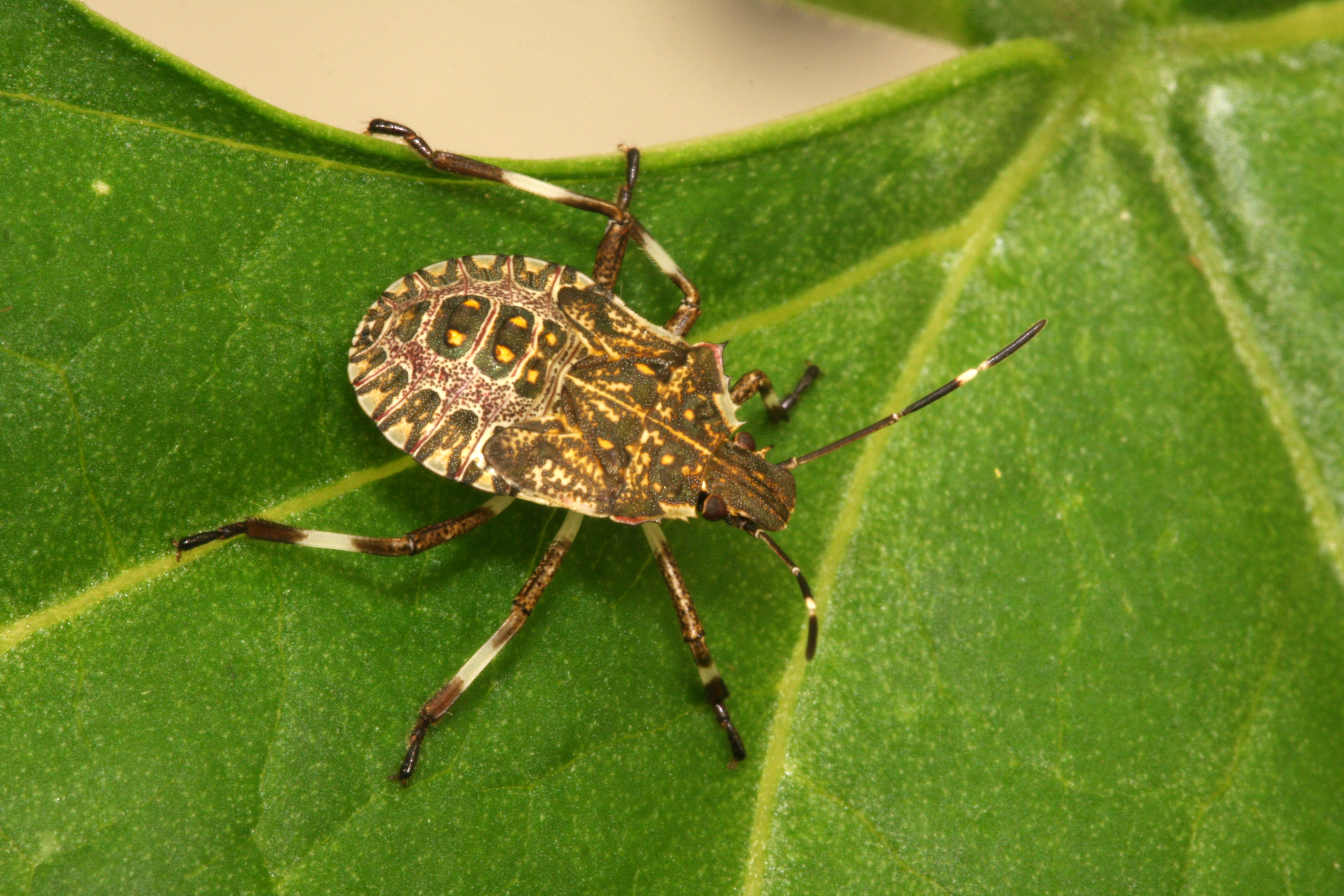 A last-instar nymph of the brown marmorated stink bug from a laboratory colony on a common bean leaf, photographed in the laboratory of Fondazione Edmund Mach, Italy.